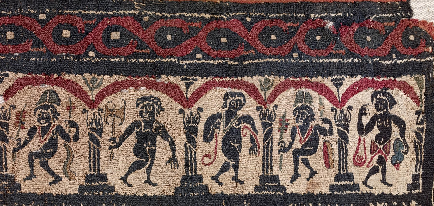 The popularity of the cult of Dionysus, which was initially introduced to Egypt by the early Ptolemy rulers in the 3rd century BC and continued into early Byzantine times (4th-7th century), resulted in numerous textiles, such as this garment panel featuring Dionysiac themes. The "segmentum" (ornamental tunic patch) depicts dancers involved in what was probably intended to be a Dionysiac dance to celebrate regeneration and rebirth. The commonly used grape vine border, which frames the central portion of the panel, also acts as an allusion to Dionysus and to renewal and prosperity associated with him.